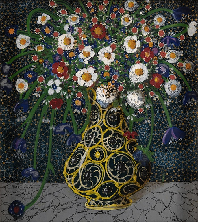 Bunch of Wild Flowers